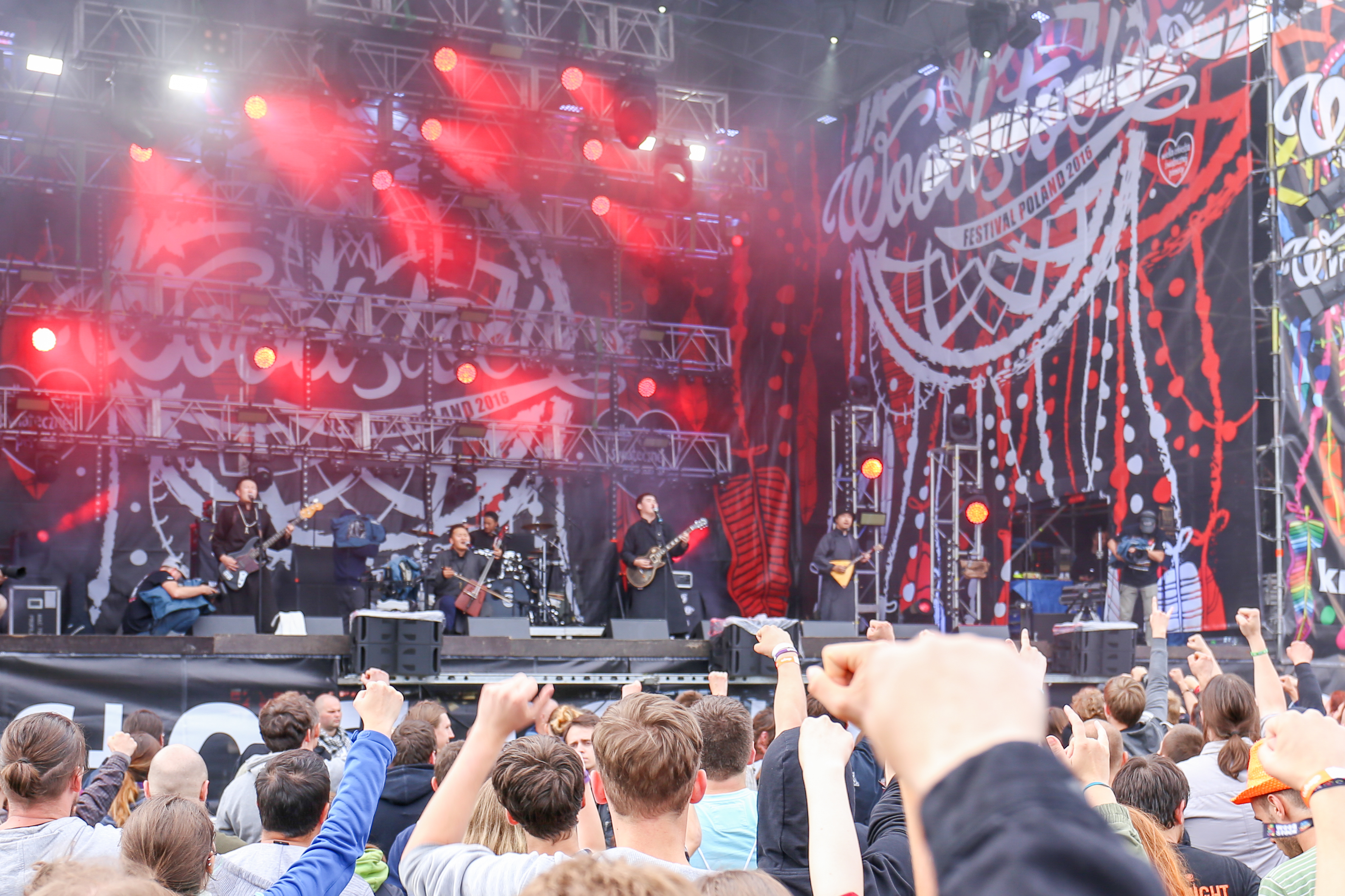 Przystanek Woodstock in 2016.